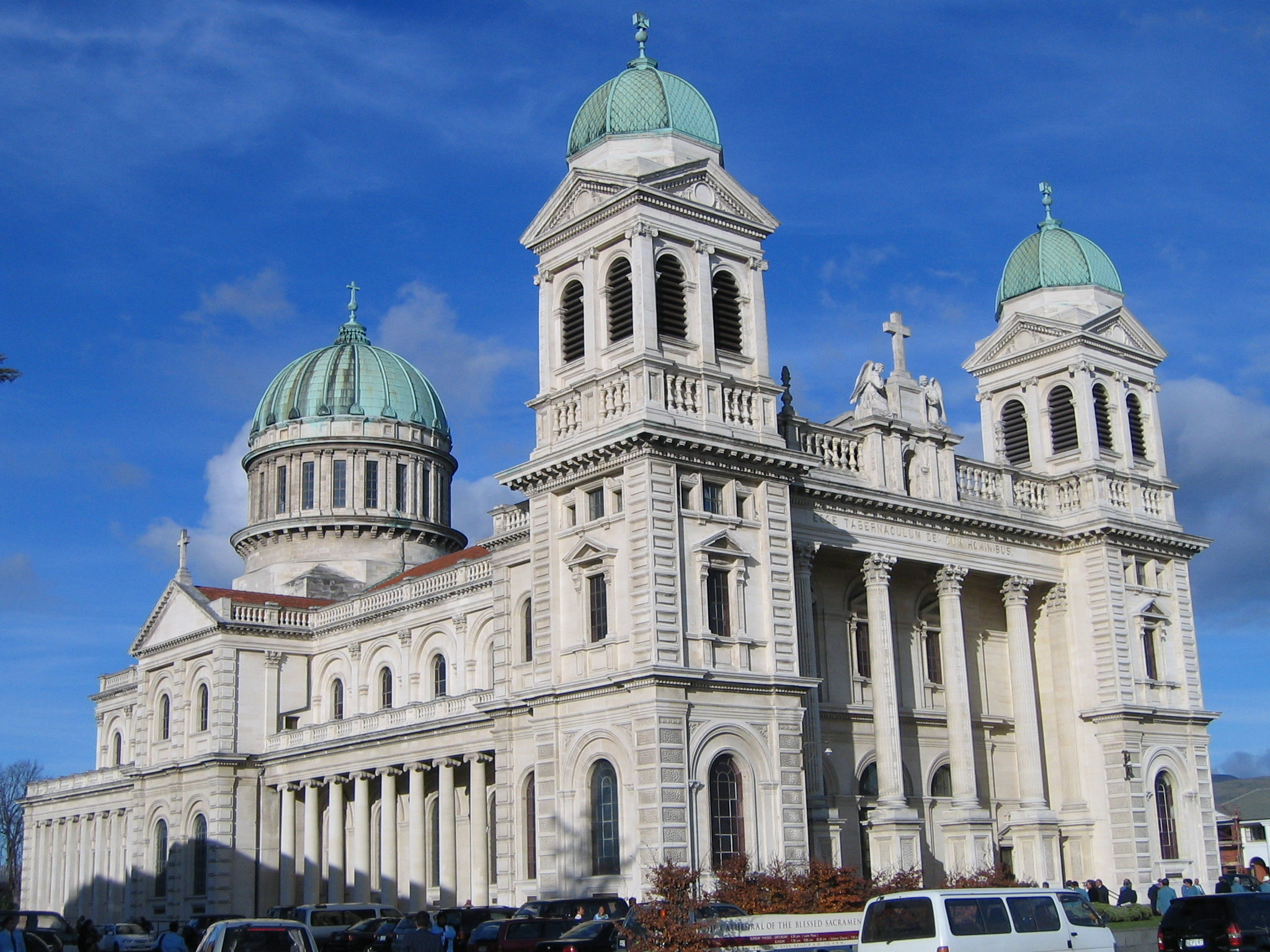 Francis Petre's Cathedral of the Blessed Sacrament, Christchurch, New Zealand, prior to the 2010 earthquake.